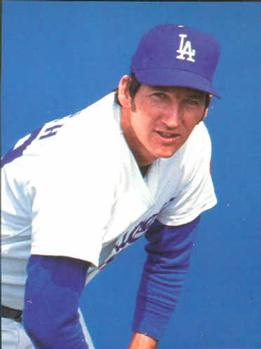 A baseball card of Charlie Hough from the 1979 Go Dodger Blue Los Angeles Dodgers set.